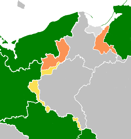 circuit of the higher regional court of Marienwerder 1919-1938